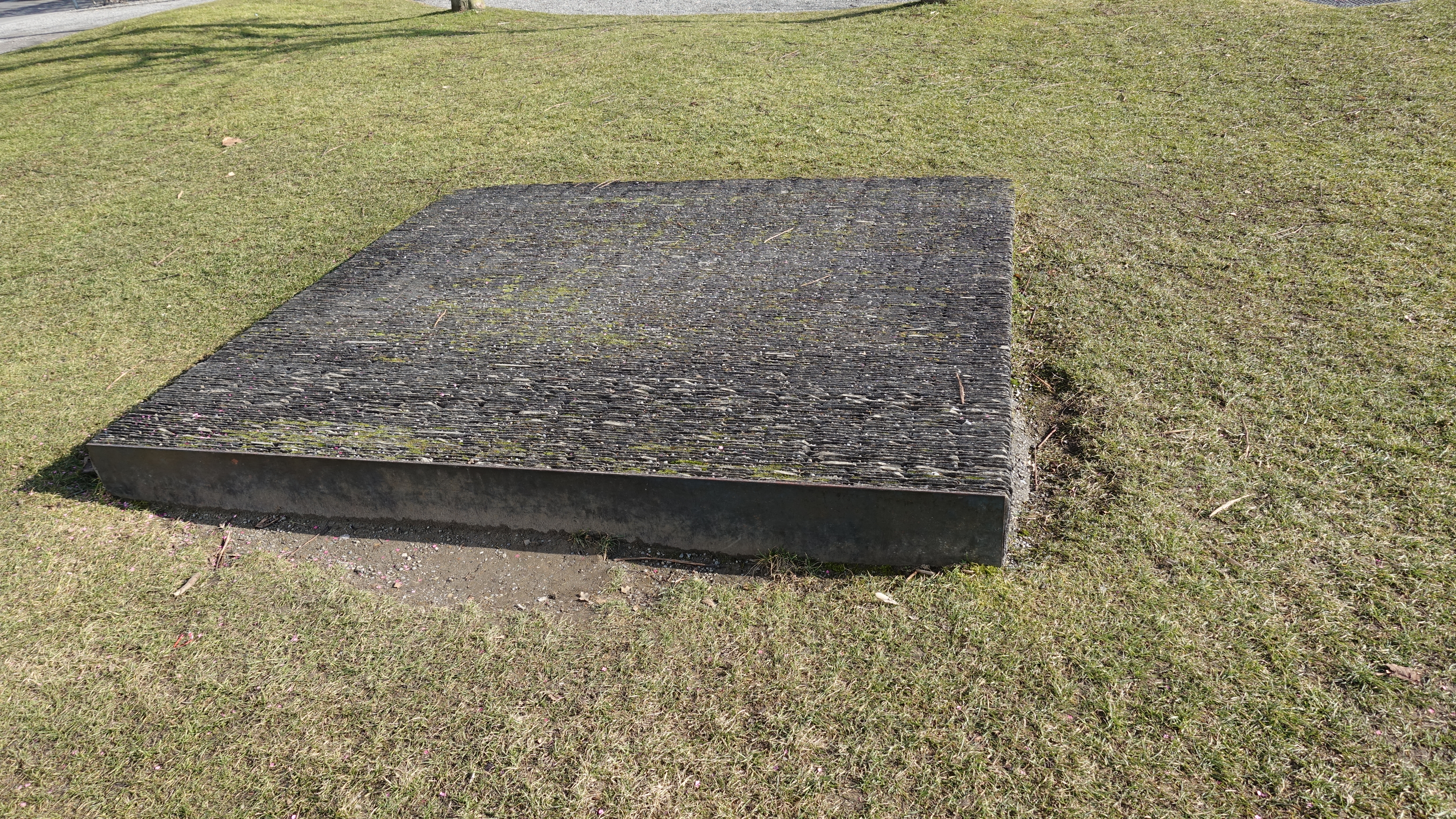 Monument of the 1887 Vorstadtkatastrophe in Zug.